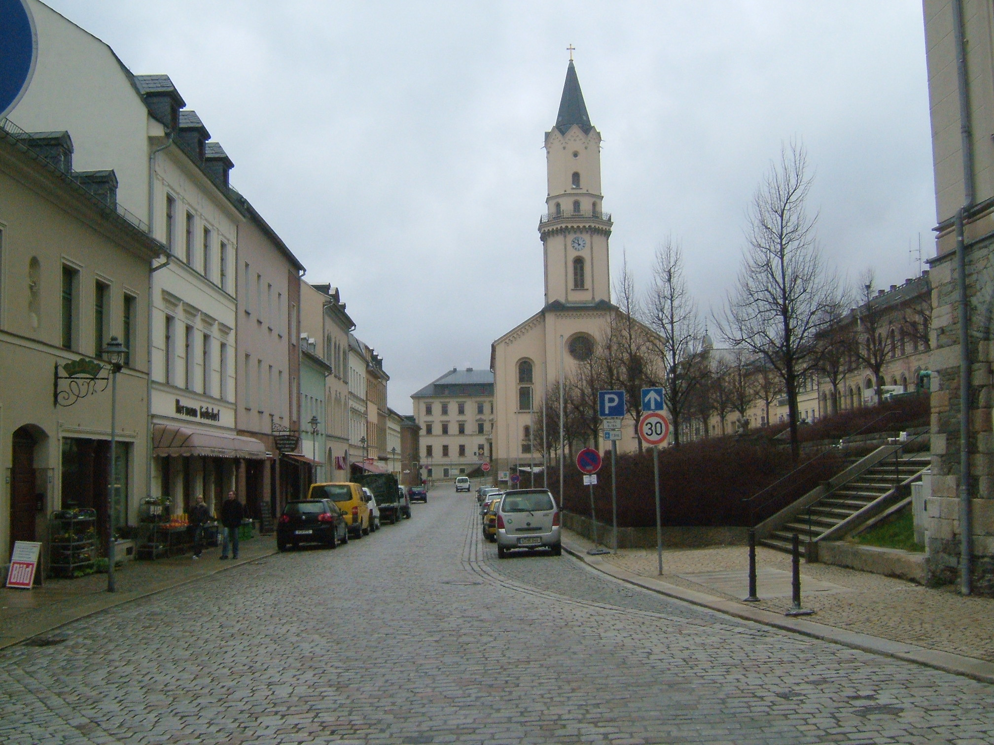 Markneukirchen, in April 2008. Untere Marktplatz, showing the 1842 church in the Romanesque style with its eight sided tower. The Rathaus is behind.